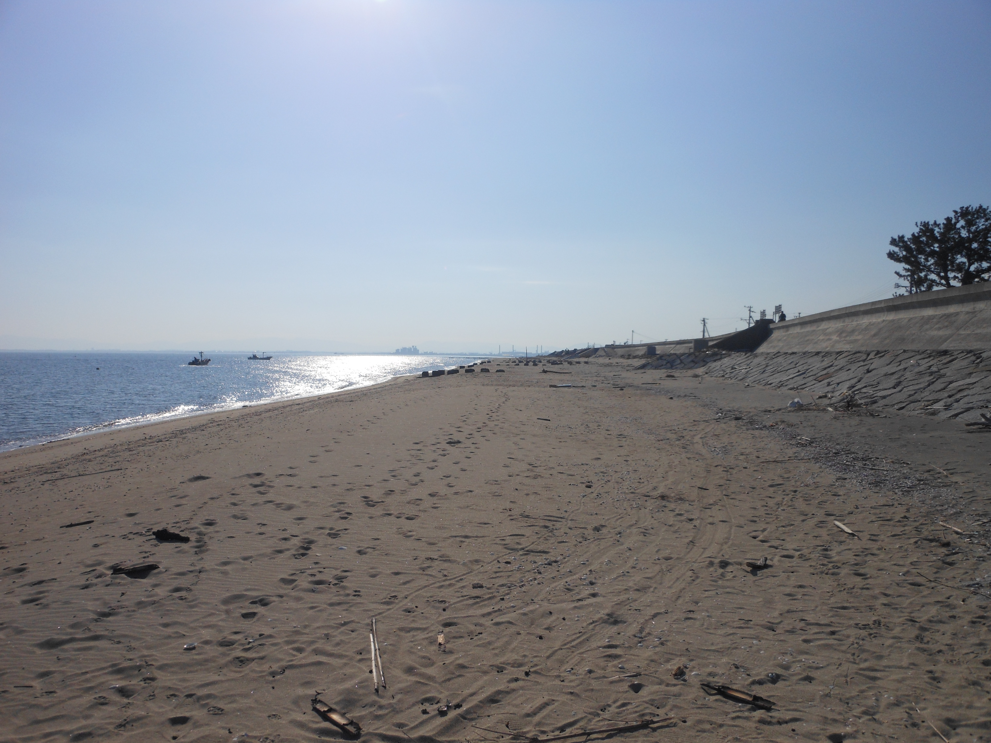 This is a landscape of Karasu Beach, Tsu, Mie, Japan.